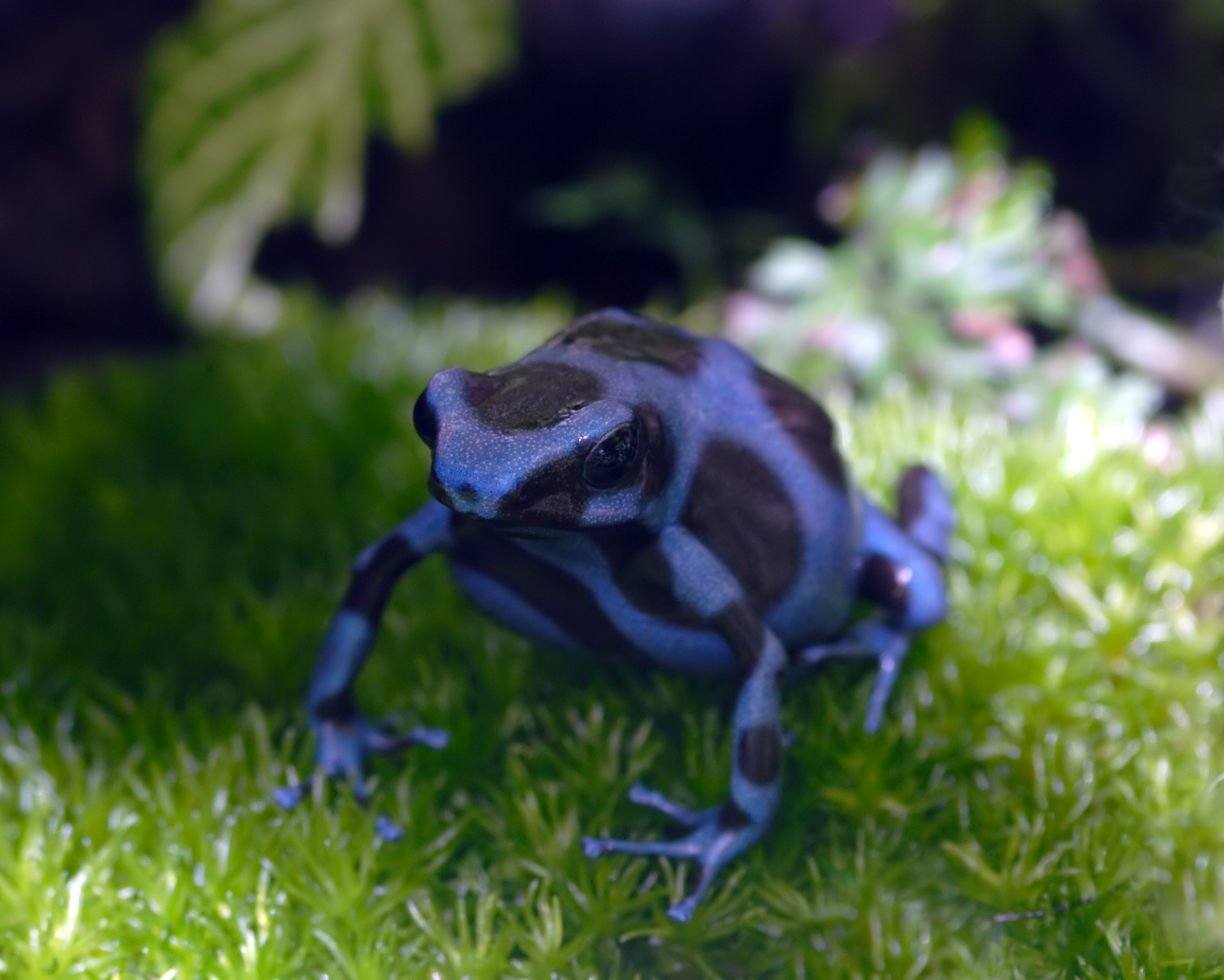 This image shows a Green and Black Poison Dart Frog (Dendrobates auratus).